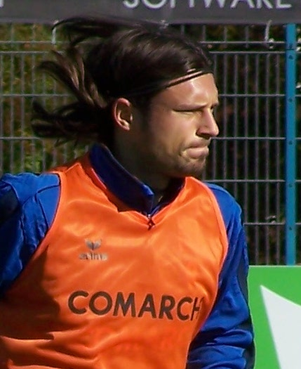 Djordje Rakic, 1860 munich, training